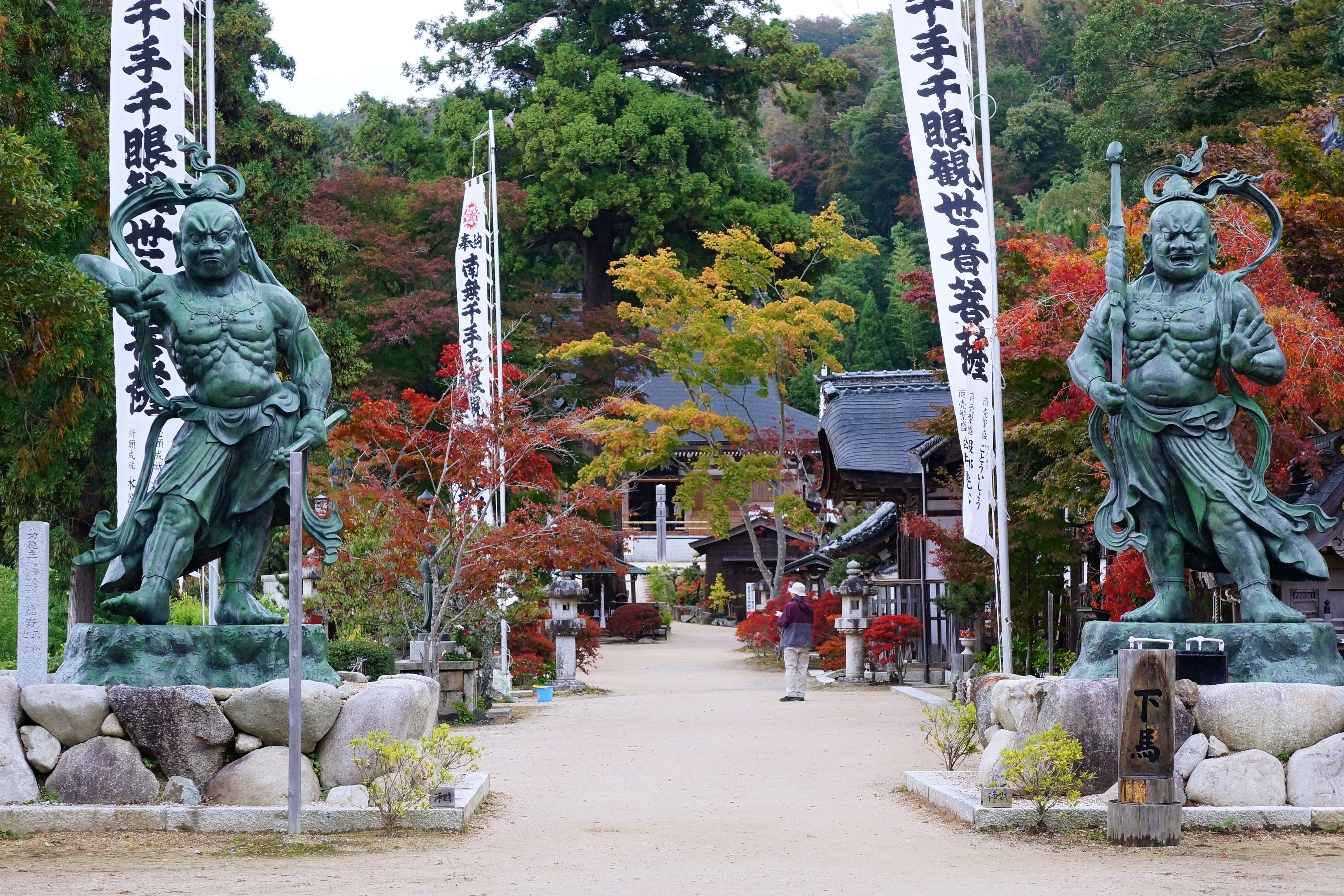 Kannonshō-ji in Azuchi, Omihachiman, Shiga prefecture, Japan.